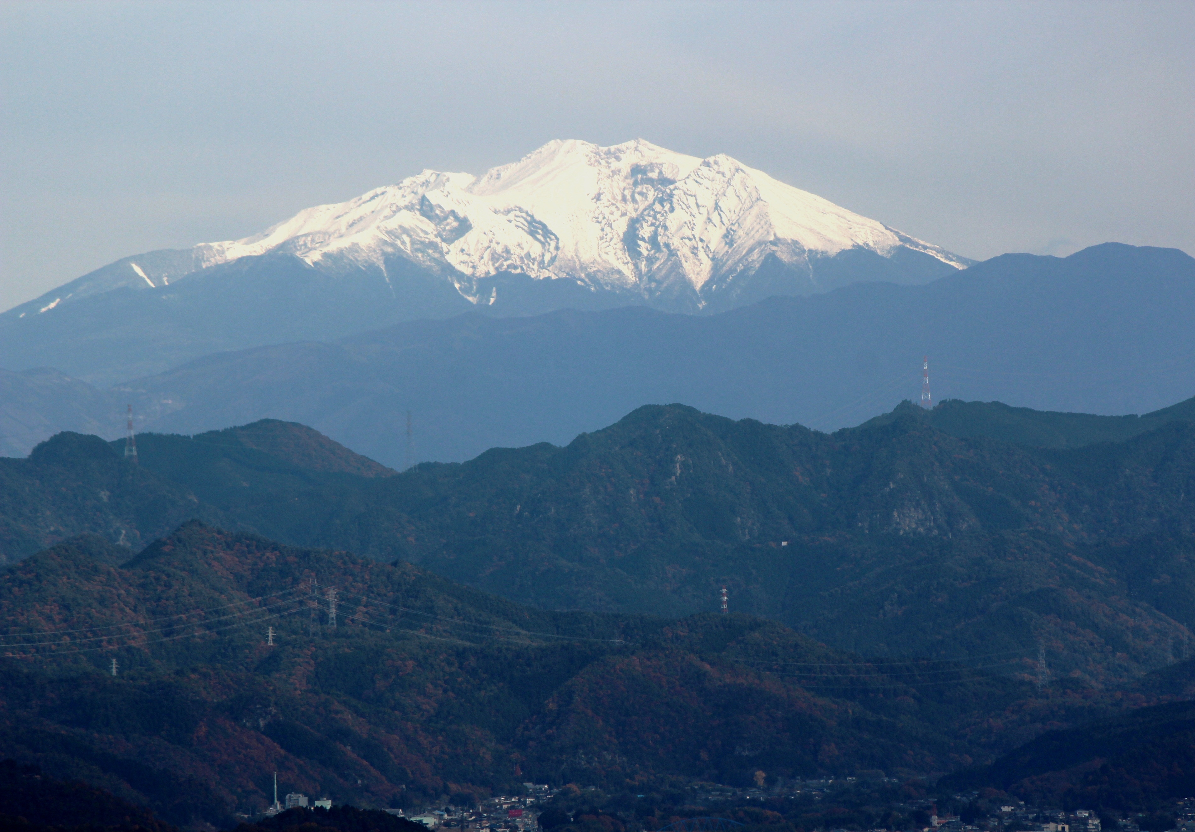 Mount Ontake from Mount Hatobuki